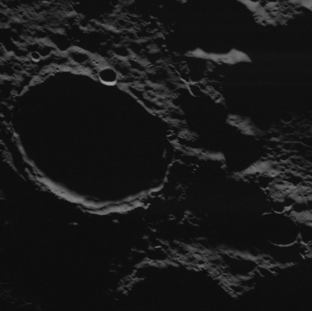 Chesterton crater on Mercury,near the north pole. Resolution: 69 m/pixel Emission Angle: 40 Incidence Angle: 88.5 Latitude: 88.6 Longitude: 217.5 Phase Angle: 52